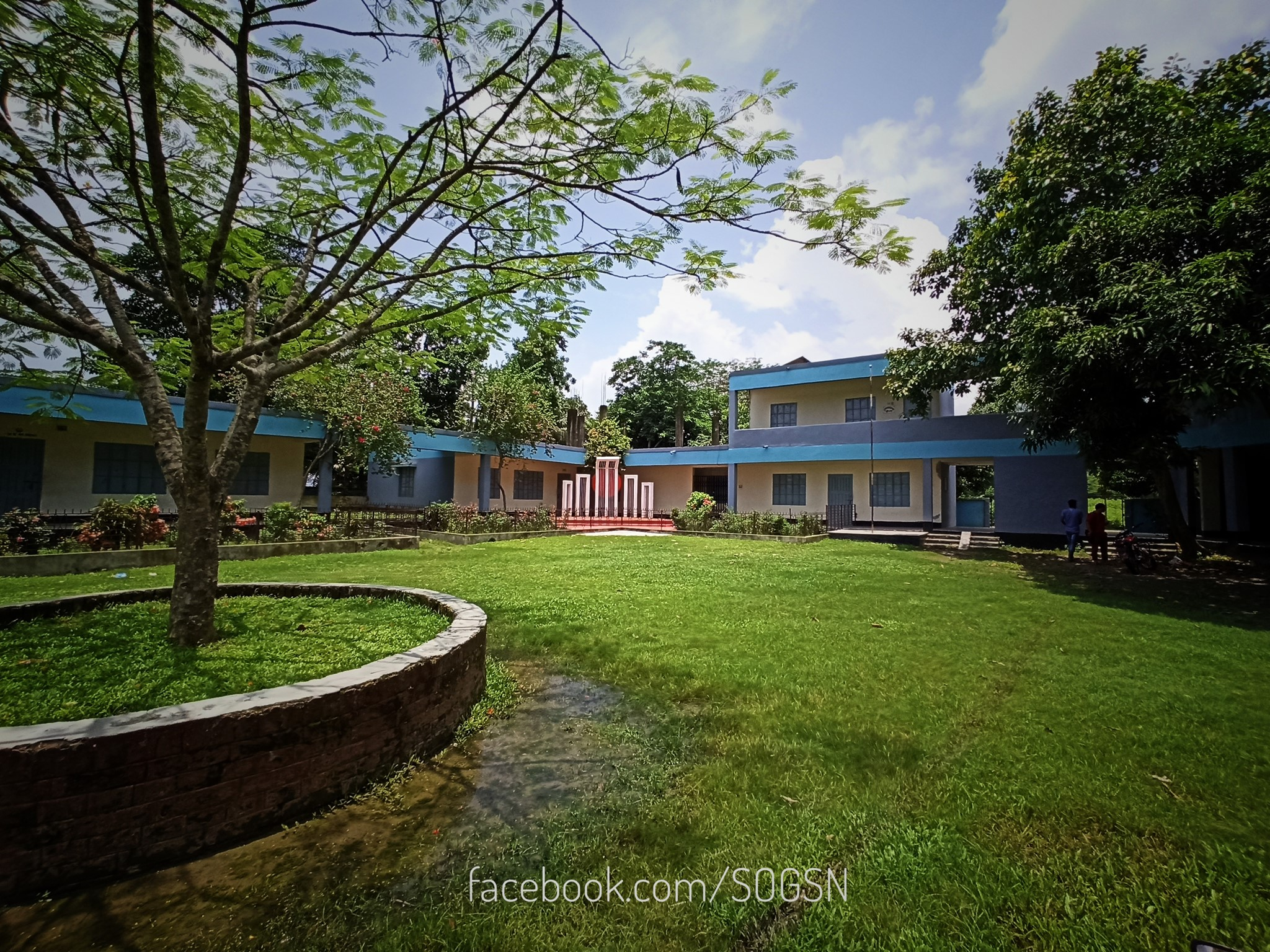 School Shahid Minar